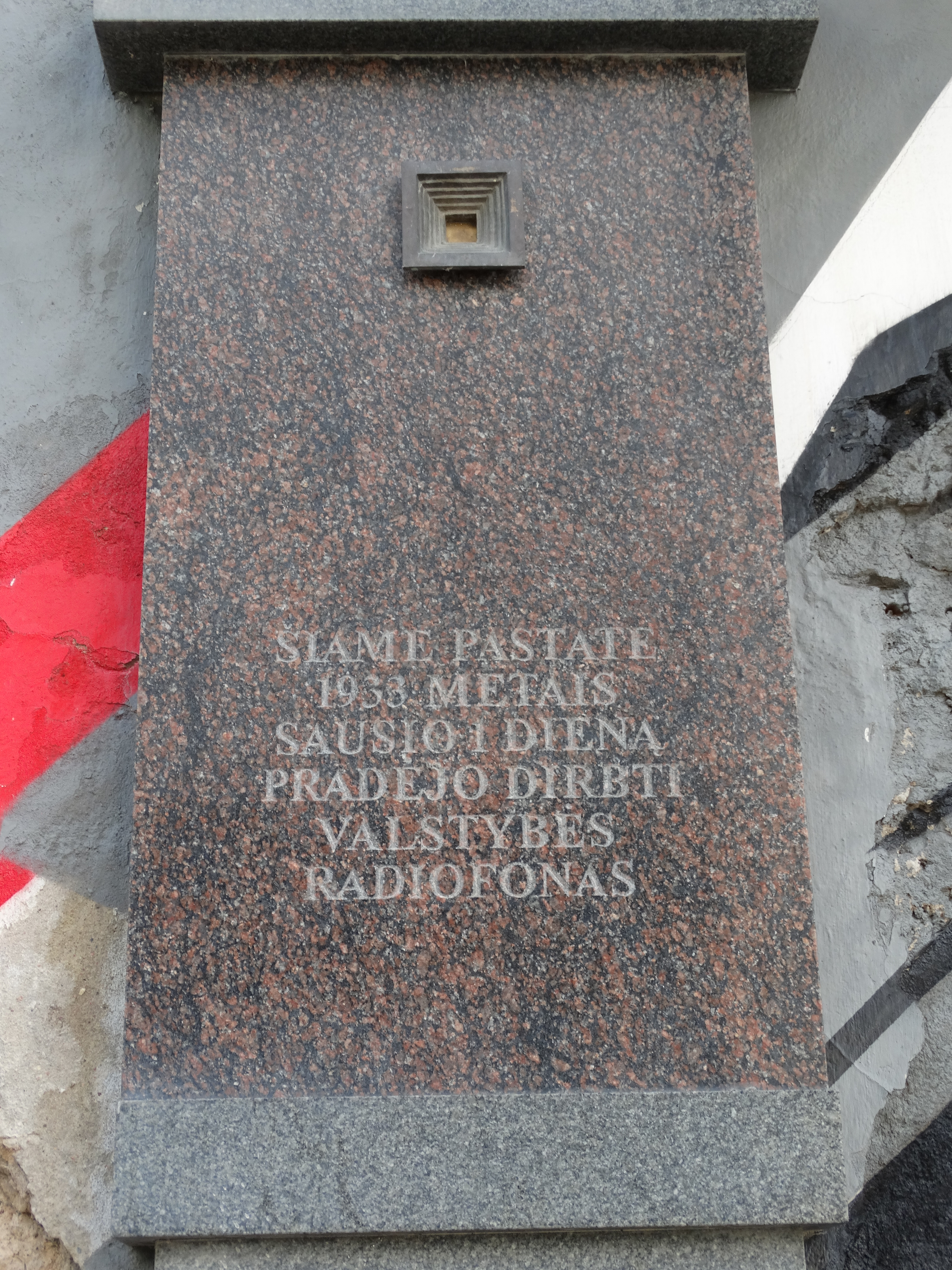 Former radio station Radiofonas, memorial plaque, Kaunas, Lithuania